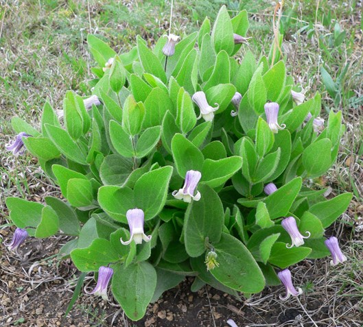 Kirwin National Wildlife Refuge is the only Refuge where Fremont's Leather-Plant (Clematis fremontii) is found.